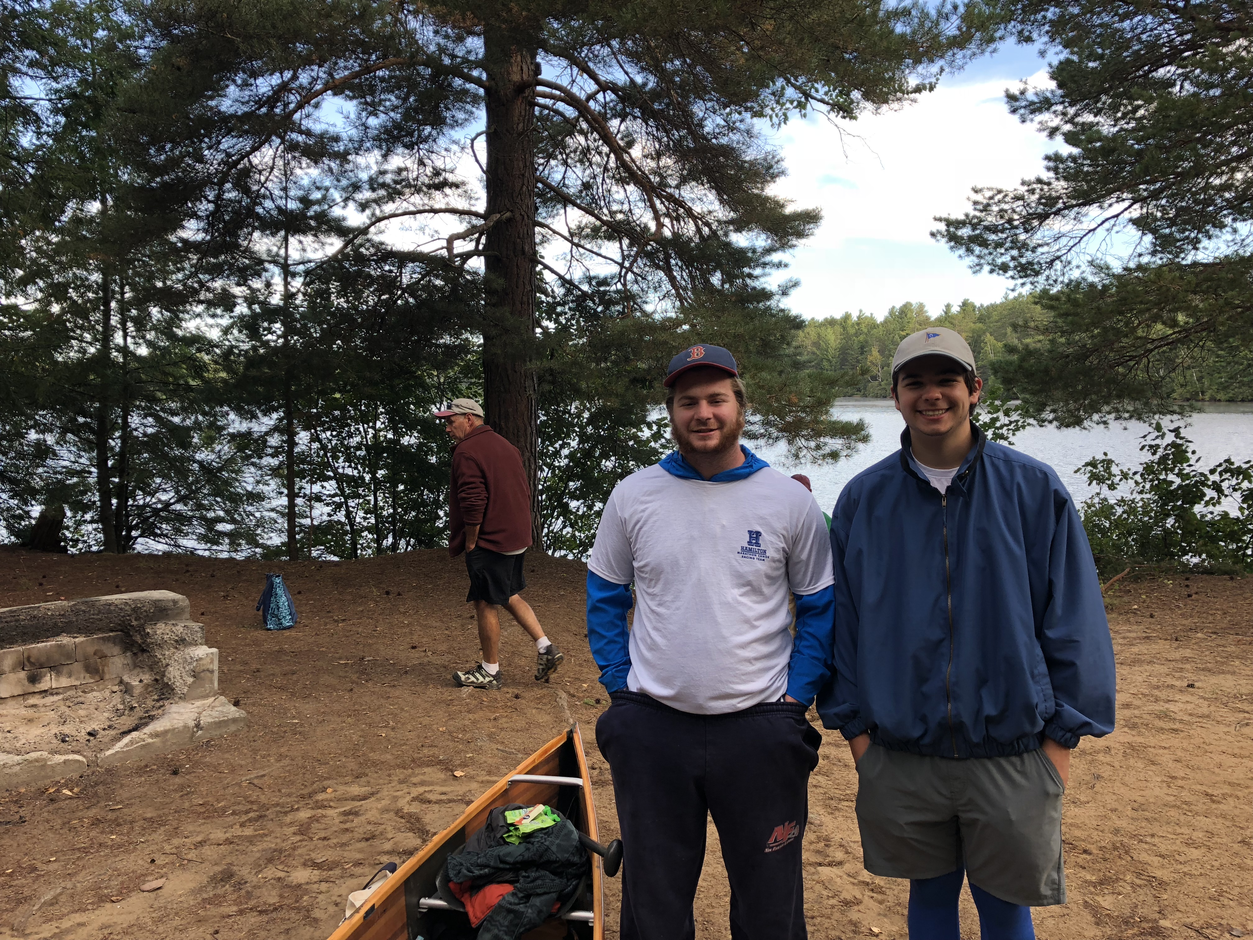 Hamilton college paddlers from the Hamilton College Marathon Canoe Team. Before they paddled the final leg of the 90 miler Adirondack Canoe Classic